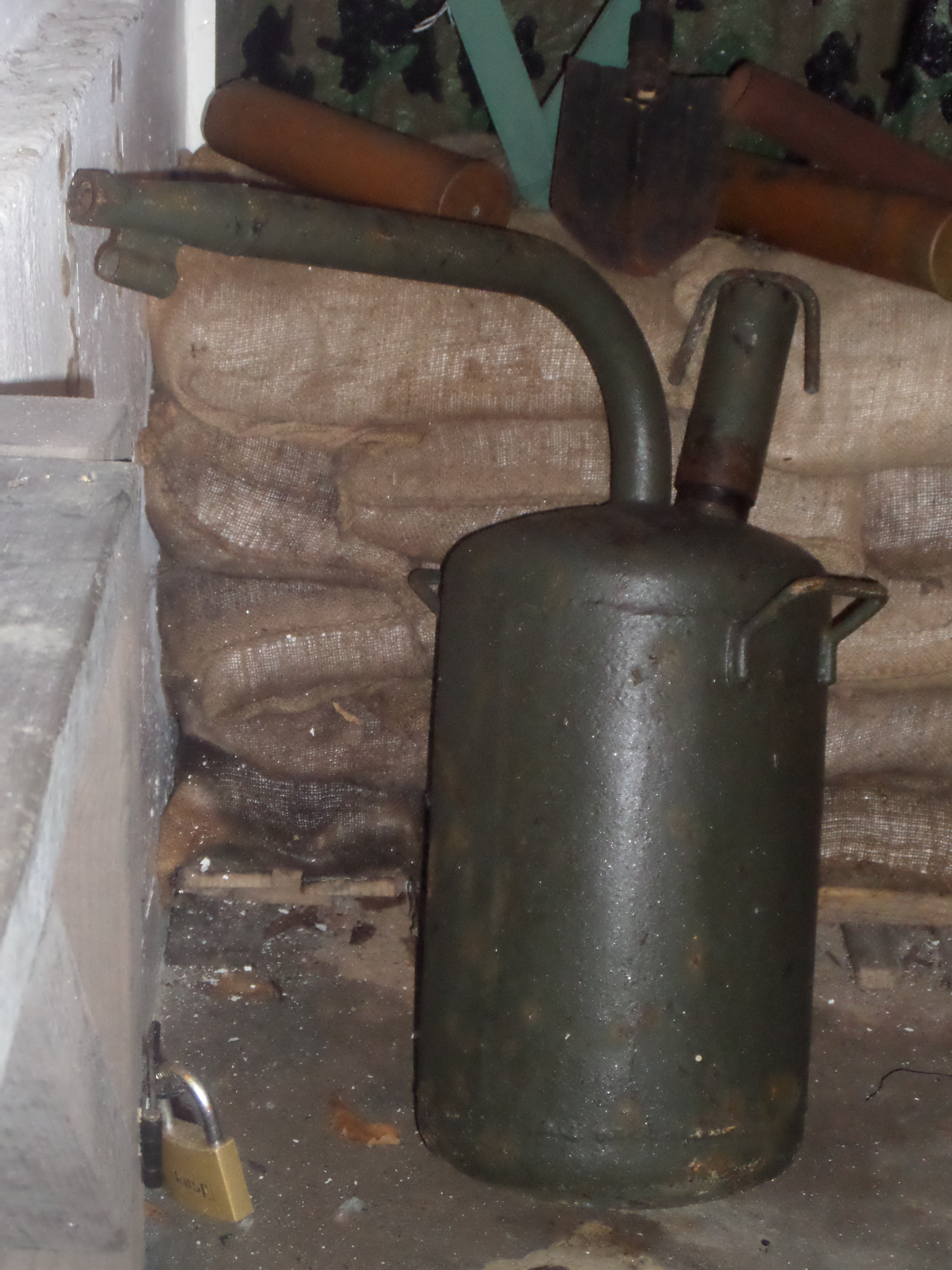 German static flamethrower mine of the Second World War. The Abwehrflammenwerfer 42. Stored in The War Tunnels, a WWII German, underground complex on the island of Jersey in the Channel Islands.